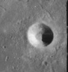 Egede B crater, on the moon.